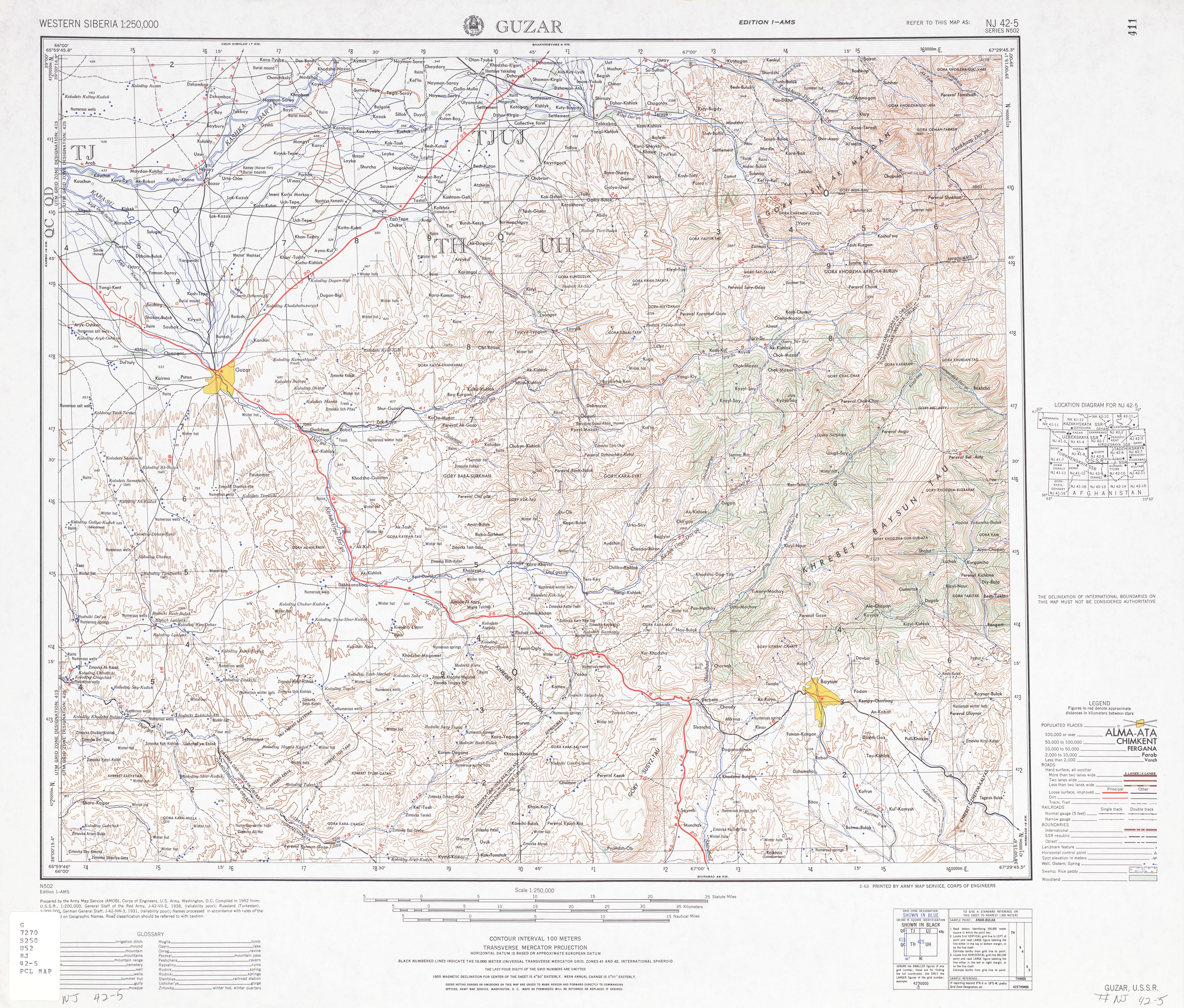 List from Western Siberia AMS Topographic Maps. Series N502, U.S. Army Map Service, 1955